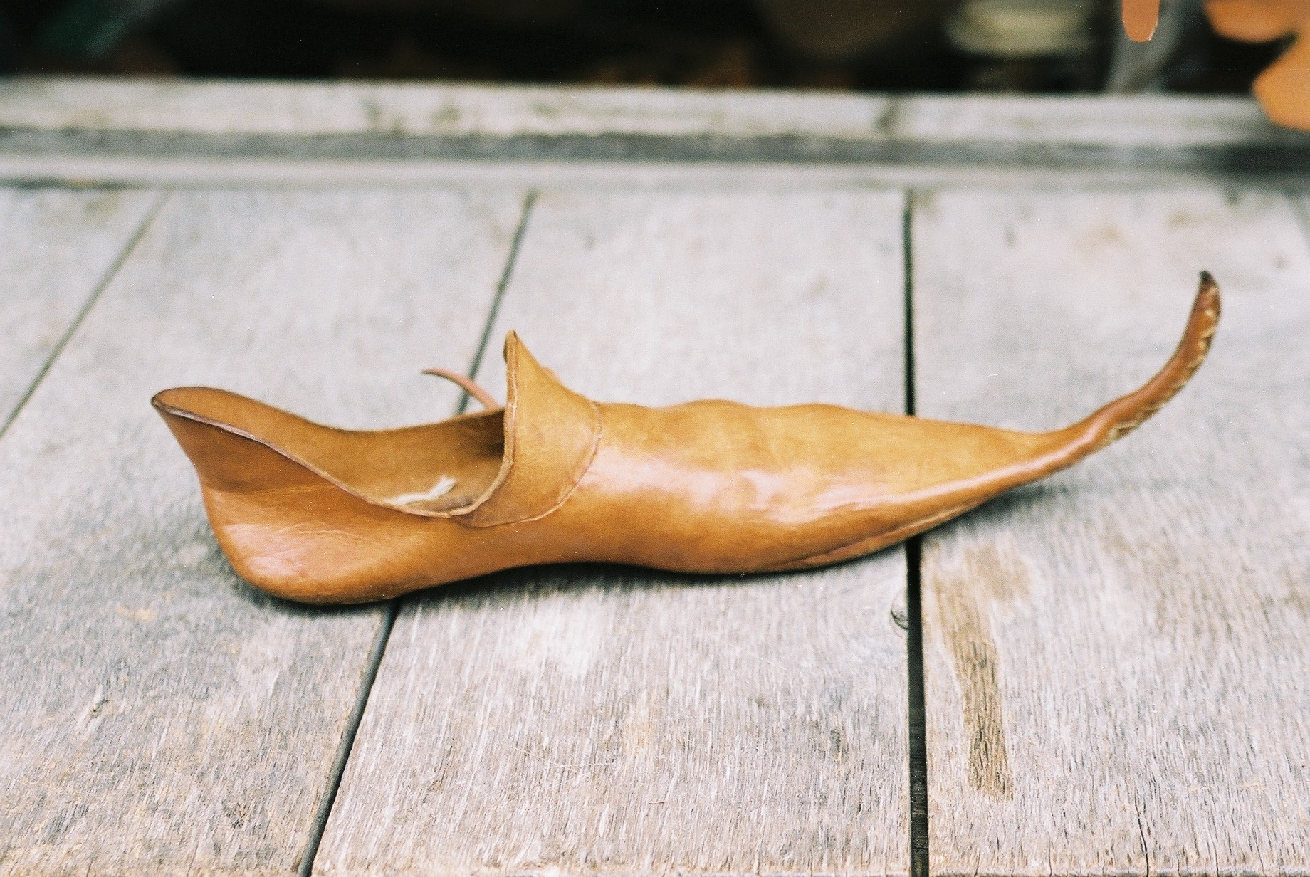 really pointed